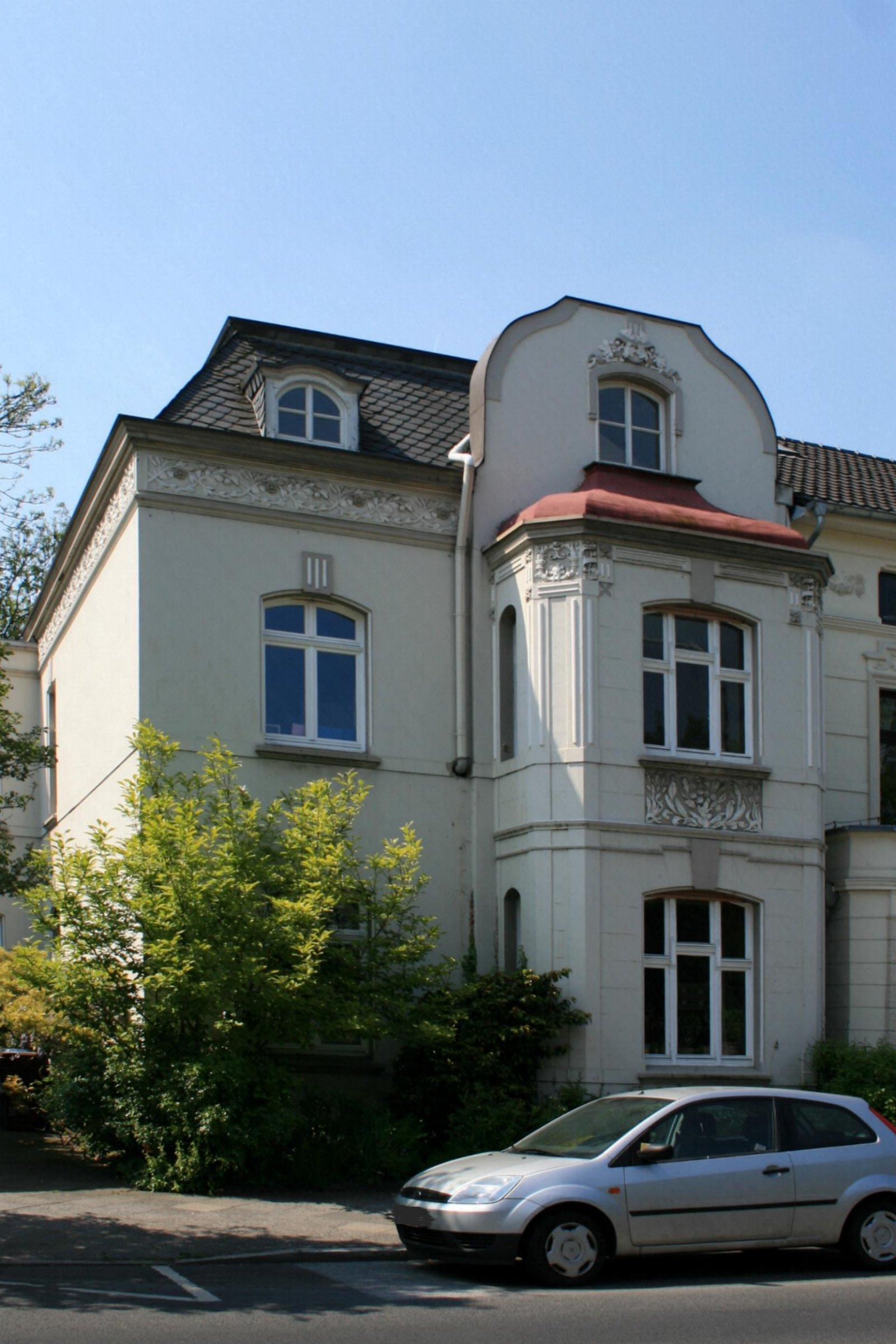 Cultural heritage monument No. B 134 in Mönchengladbach